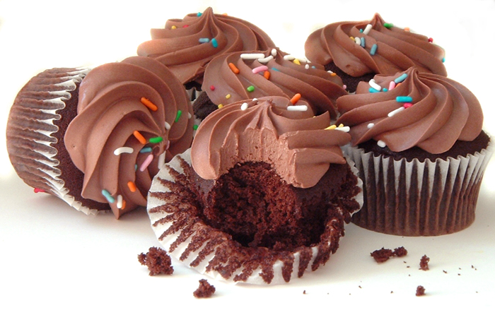 Store bought cupcakes. Кыргызча: Дүкөндөн сатып алынган капкейк.